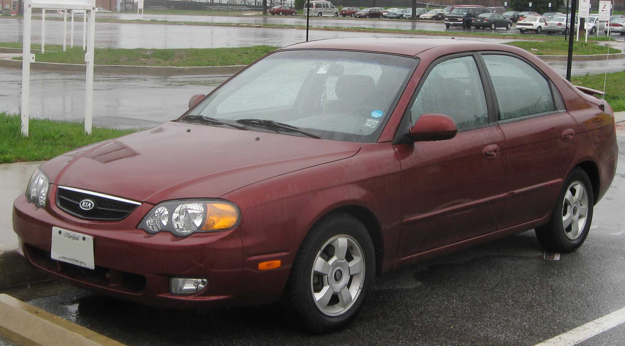 2002-2004 Kia Spectra photographed in College Park, Maryland, USA.